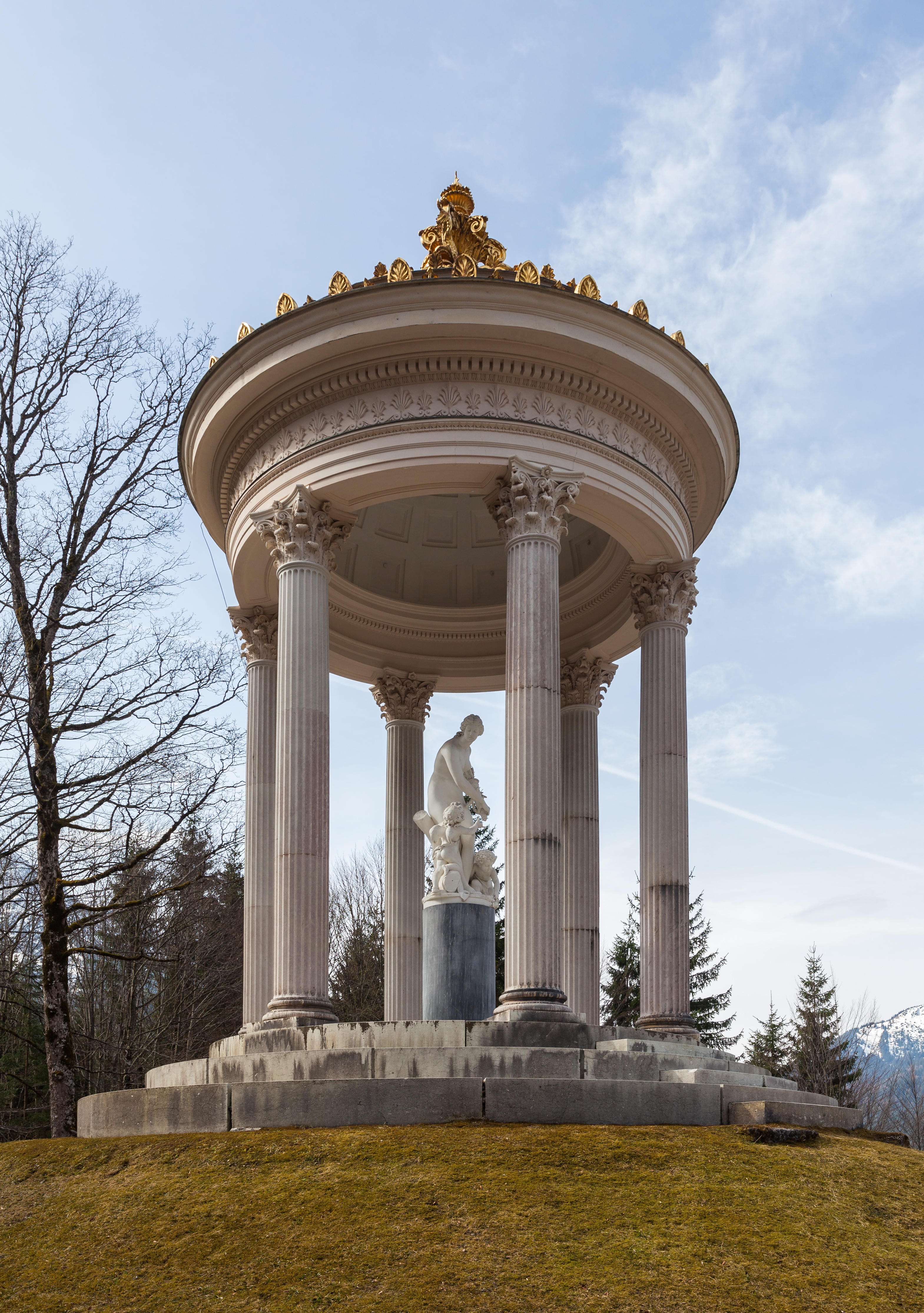 Venus temple of the Linderhof Palace, Bavaria, Germany